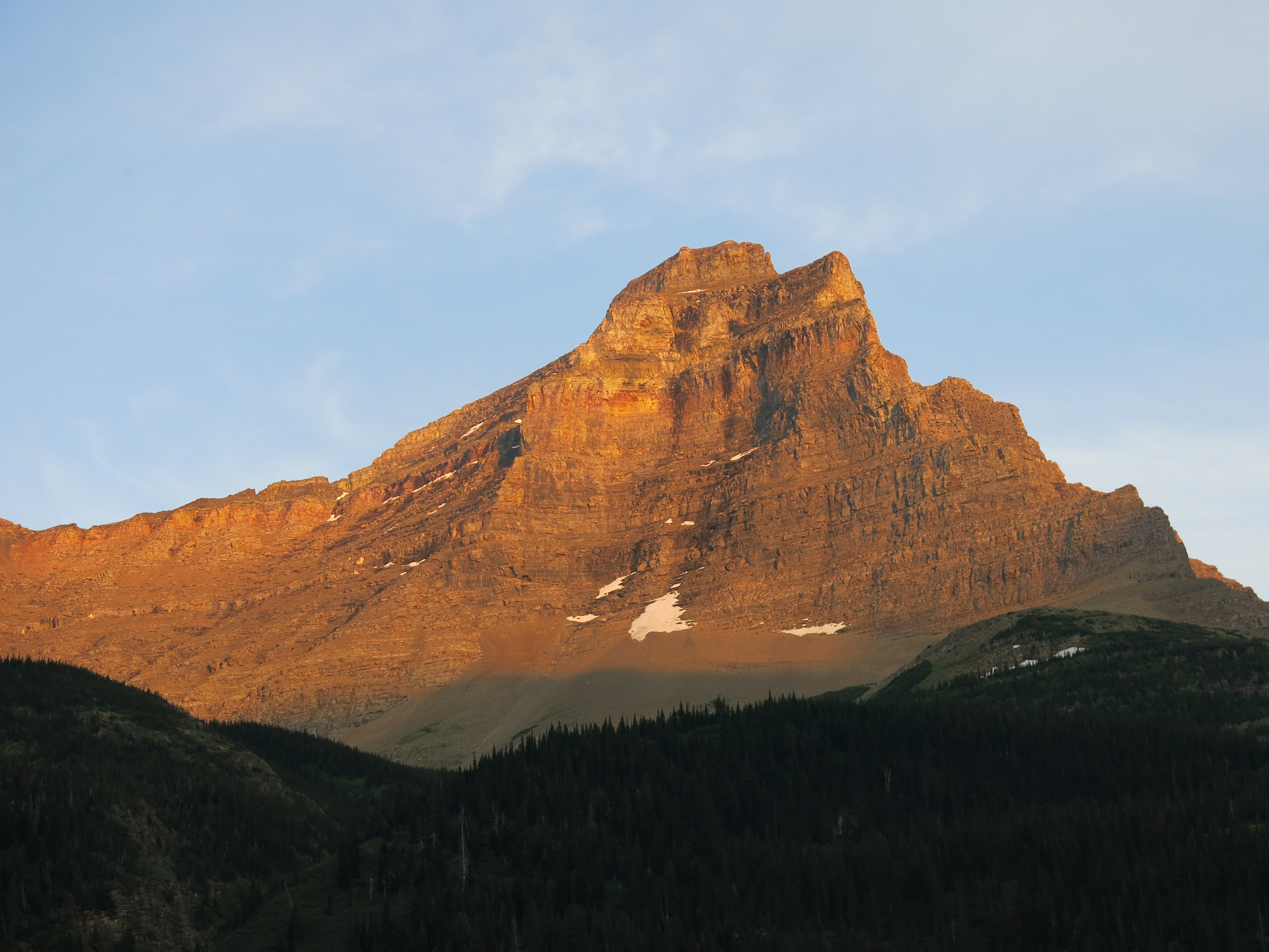 Sunset on Mount Merritt, Glacier National Park, Montana, as seen from Glenns Lake.